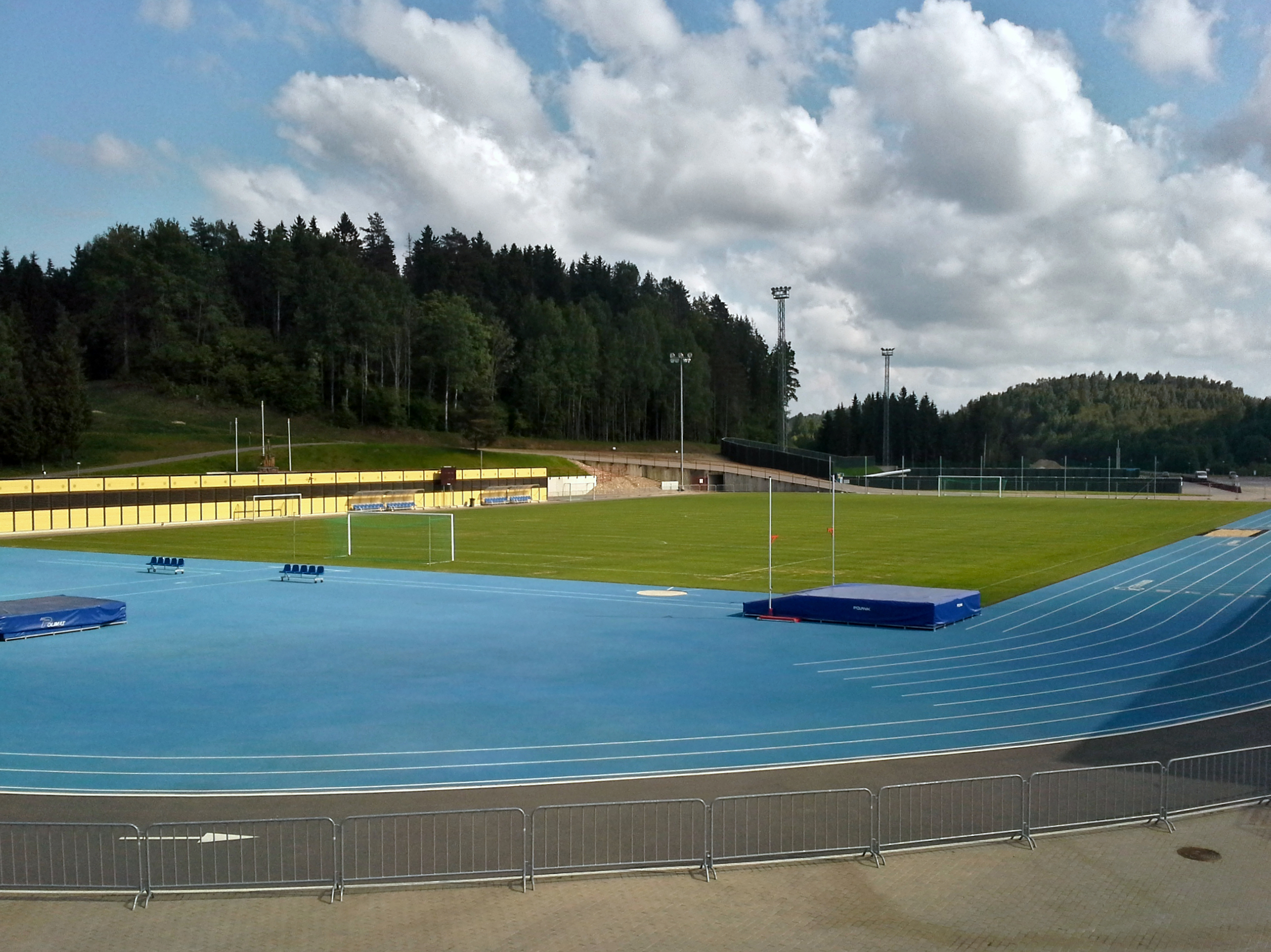 Tehvandi suusastaadion, Otepää, Estonia.